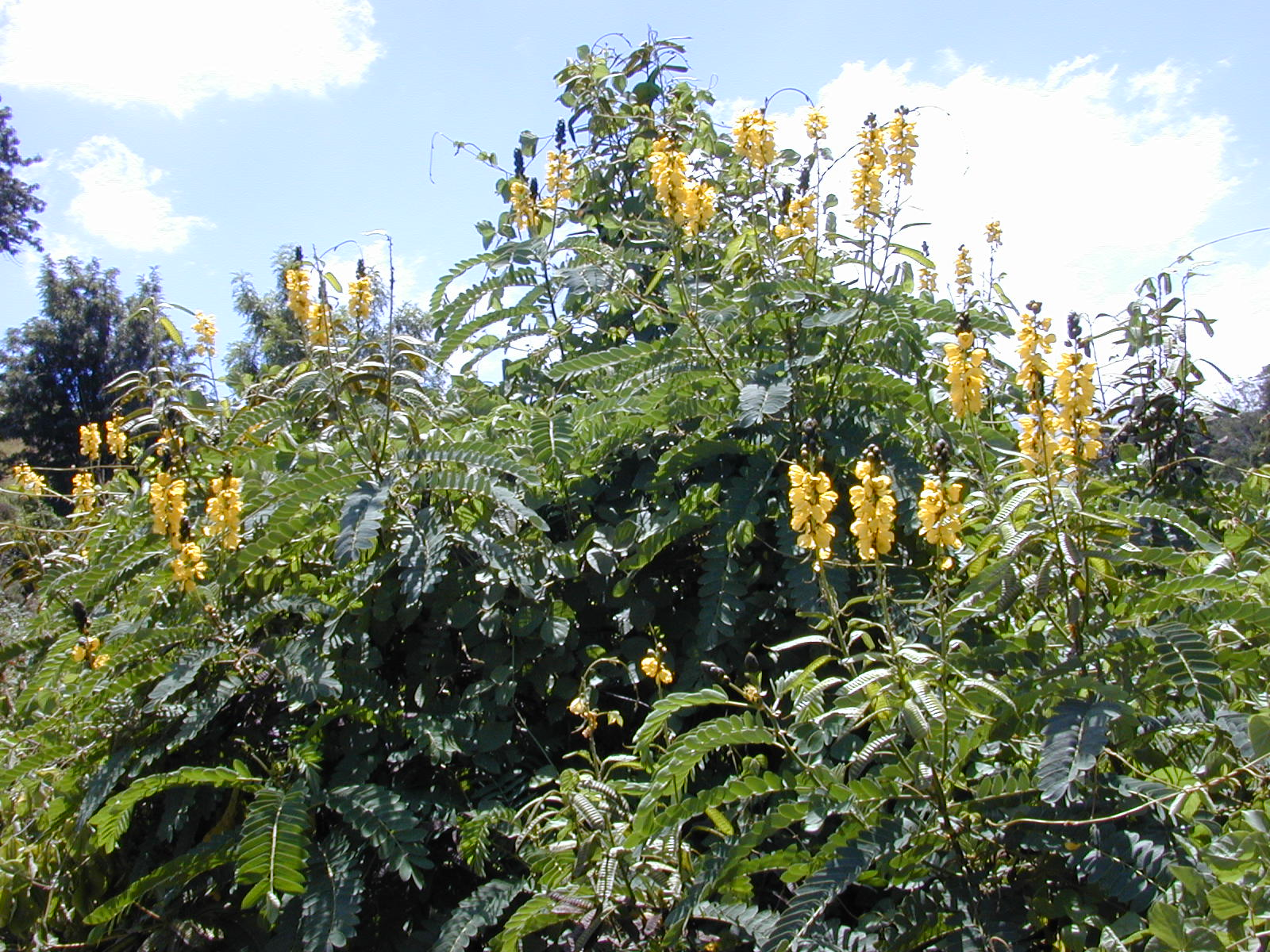 Senna didymobotrya (ms habit). Location: Maui, old Kula Hwy